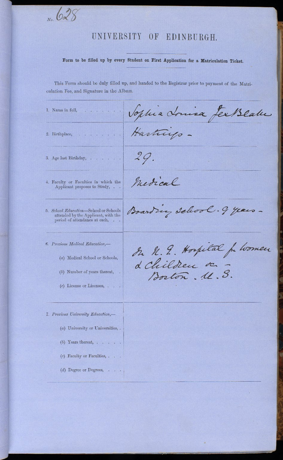 Full record available at: This image is available from the University of Edinburgh Image Collections This file was uploaded as part of a GLAMWiki partnership with the University of Edinburgh. This tag does not indicate the copyright status of the attached work. A normal copyright tag is still required. See Commons:Licensing.